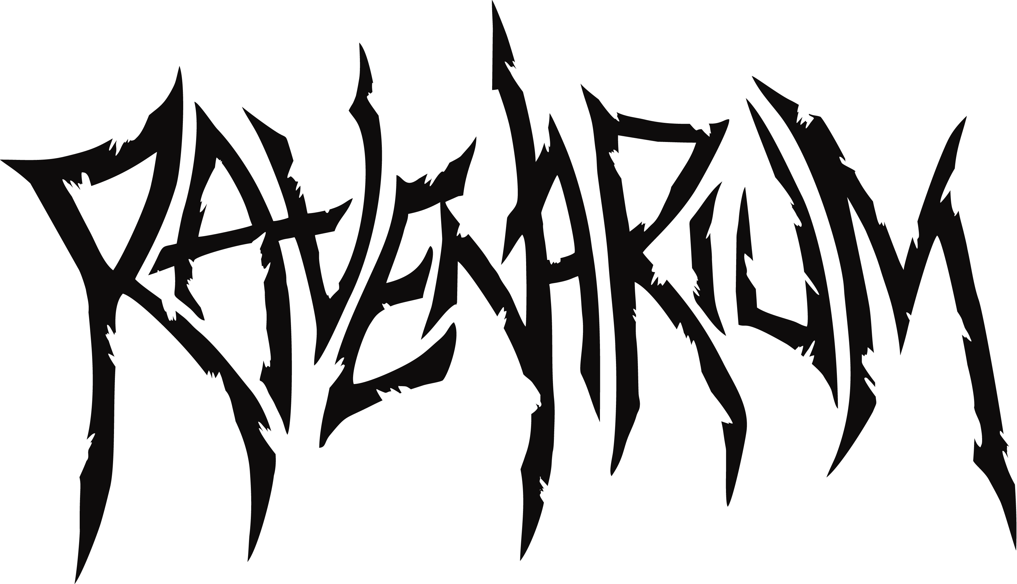 Logo upgrade 2015